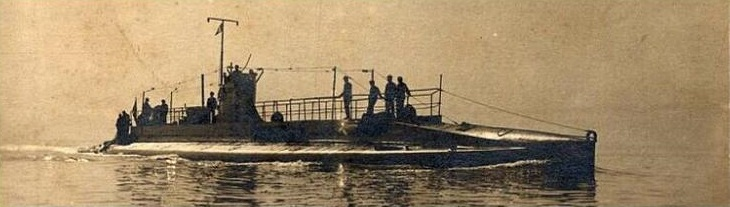 French sumbarine Amazone, of the Armide class